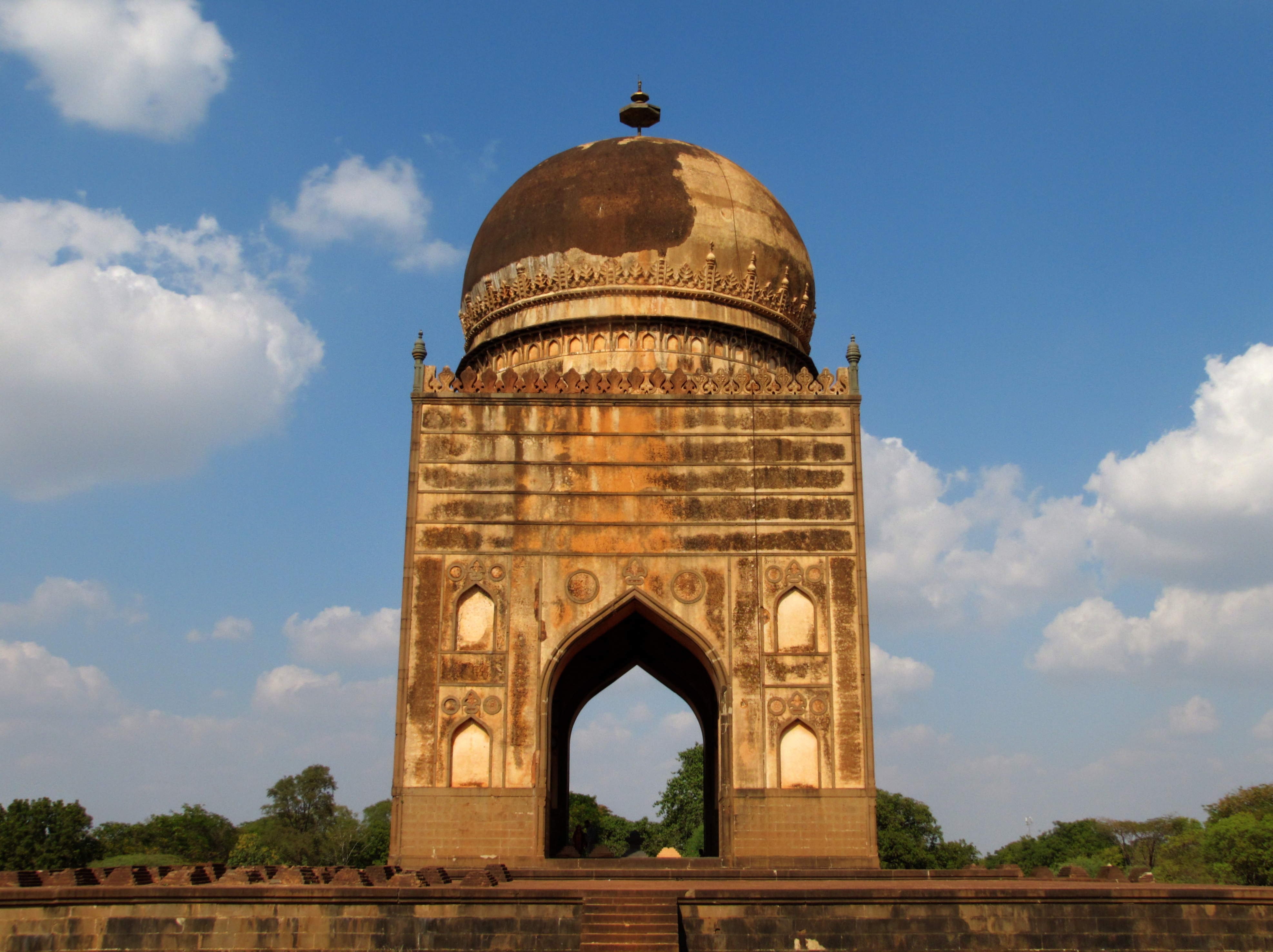 It is said that people not only should remember you when lived, but also after death. The Tomb of Ali Barid Shah is a fitting example for this statement. Which looks like a simple monument from outside turns out to be one of the most finest examples of Islamic architecture and beauty. There is a two storied Gateway which leads to the tomb, Baridshahi structures in Bidar are small but very decorative.